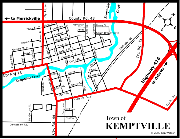 Map of Kemptville, Ontario